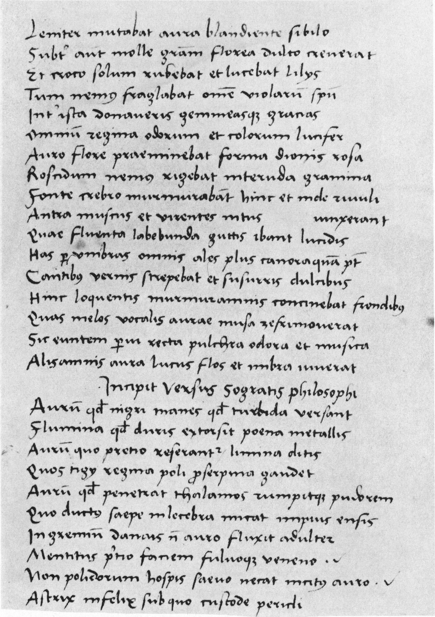 Tiberianus, Poems 1 and 2, in ms. London, British Library, Harley 3685, fol. 26r (15th century)